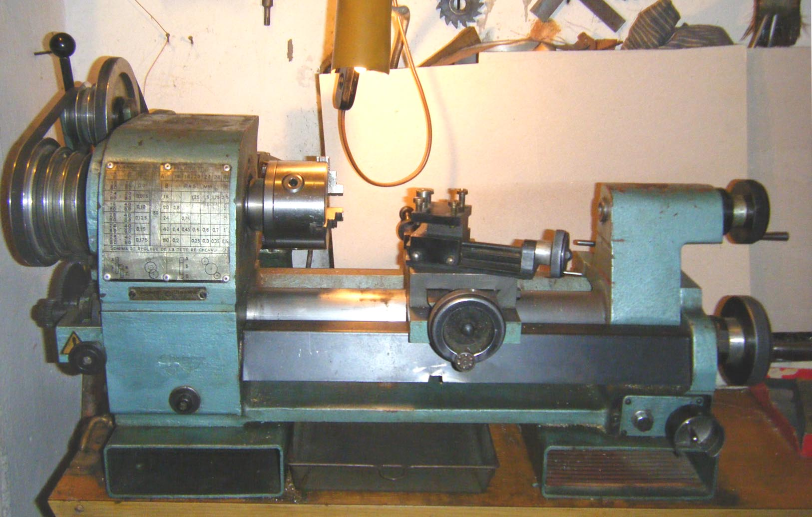 Small precision lathe